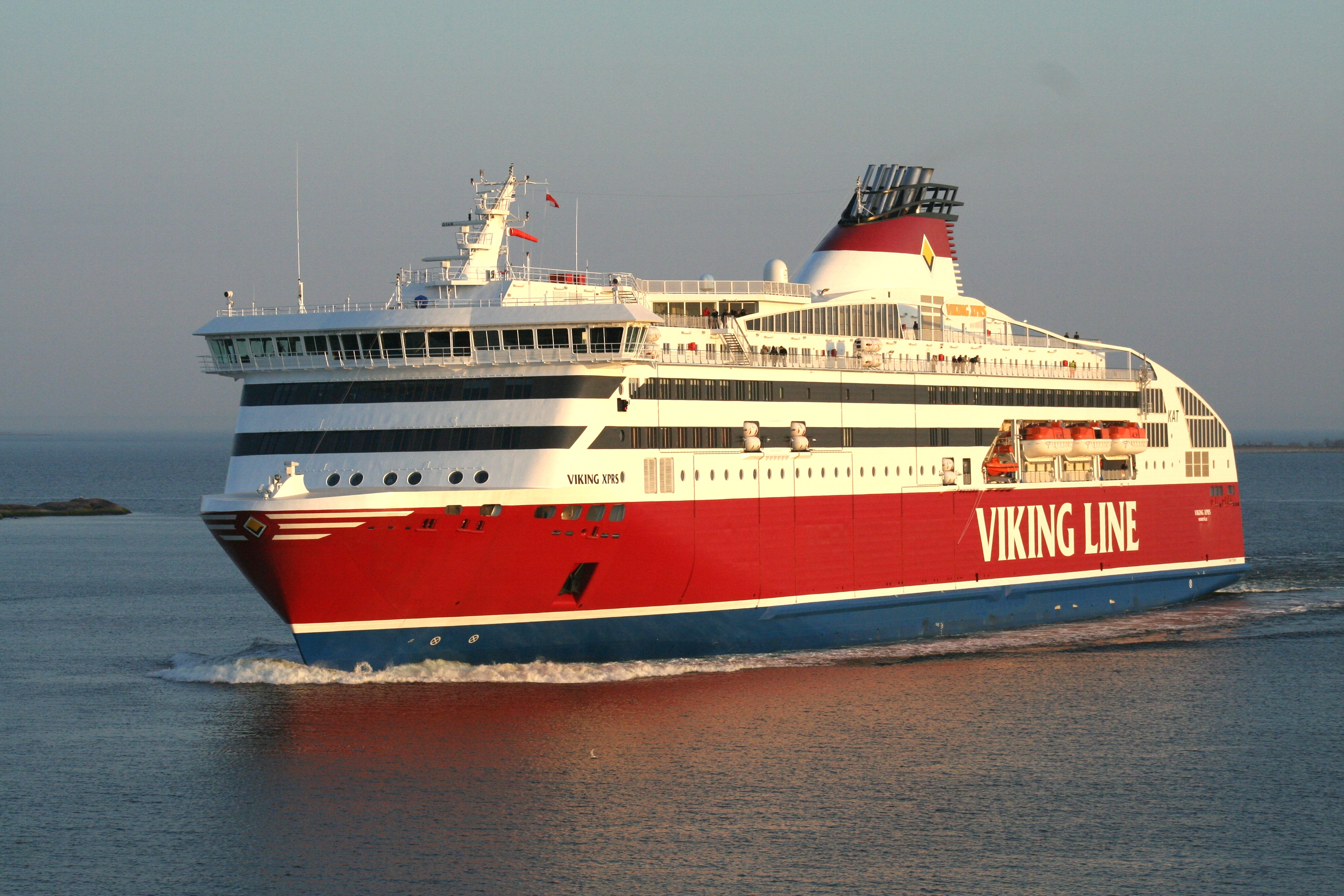 Viking Line fast cruiseferry Viking XPRS approaching Kustaanmiekka strait, Helsinki.